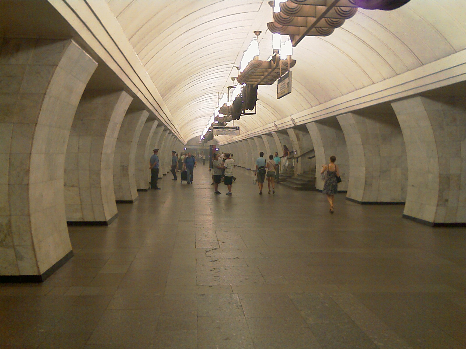 Smog in Moscow August 2010 metro Chekhovskaya